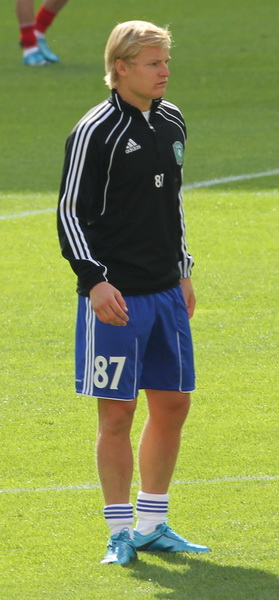 Yevgeny Starikov